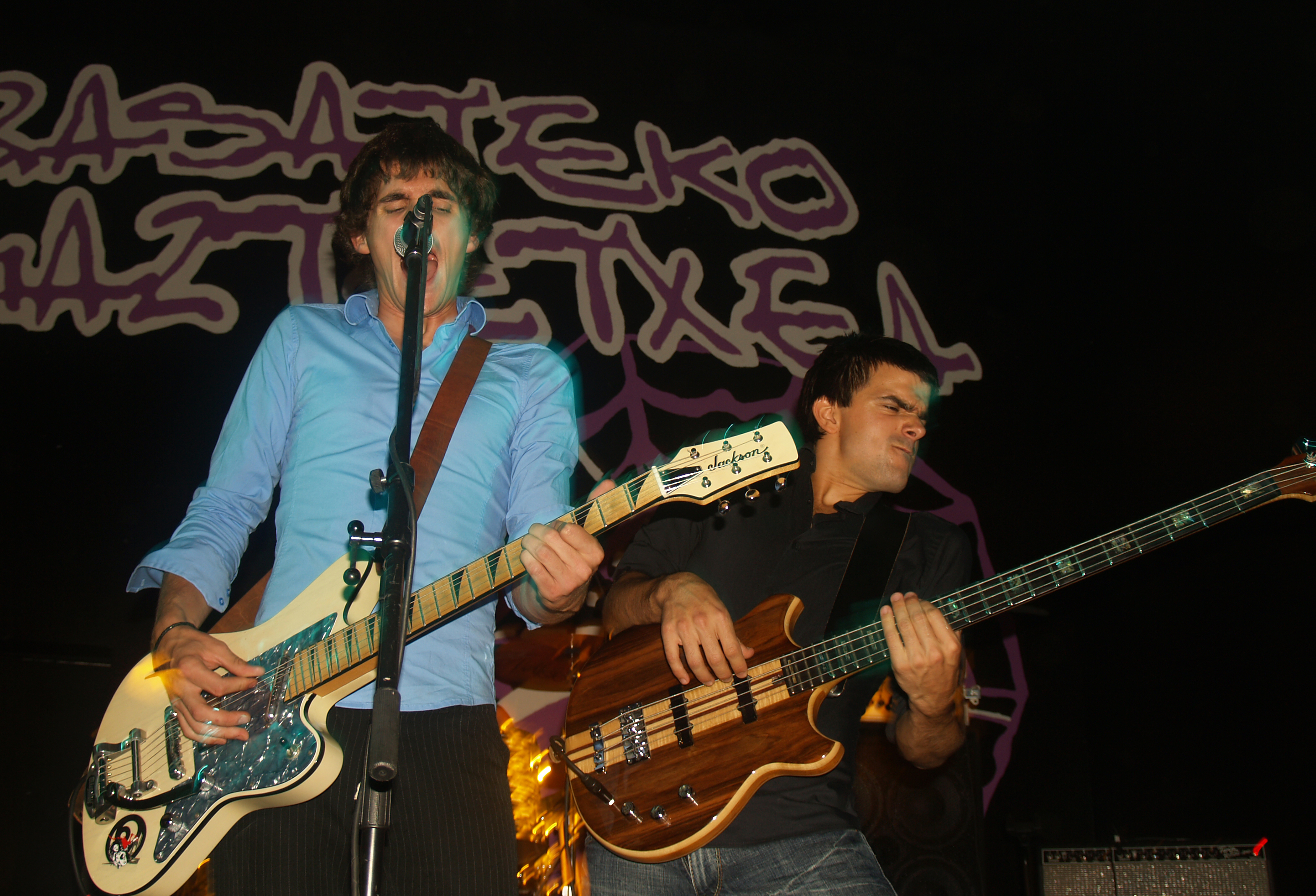 Last concert of the Radio Wings at the Gaztetxeak (social center) of Arrasate.